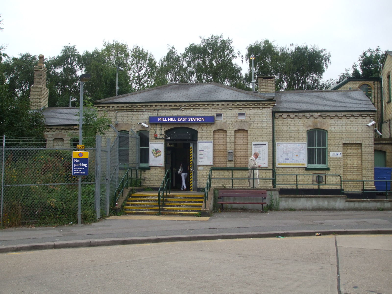 Mill Hill East tube station building